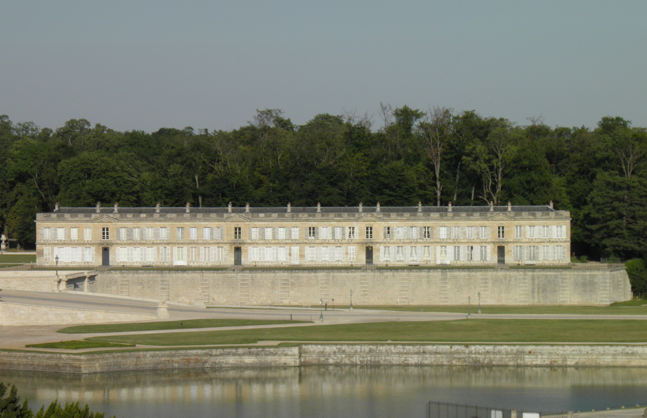 Château d'Enghien (1769), in the park of the château de Chantilly, Oise, France.